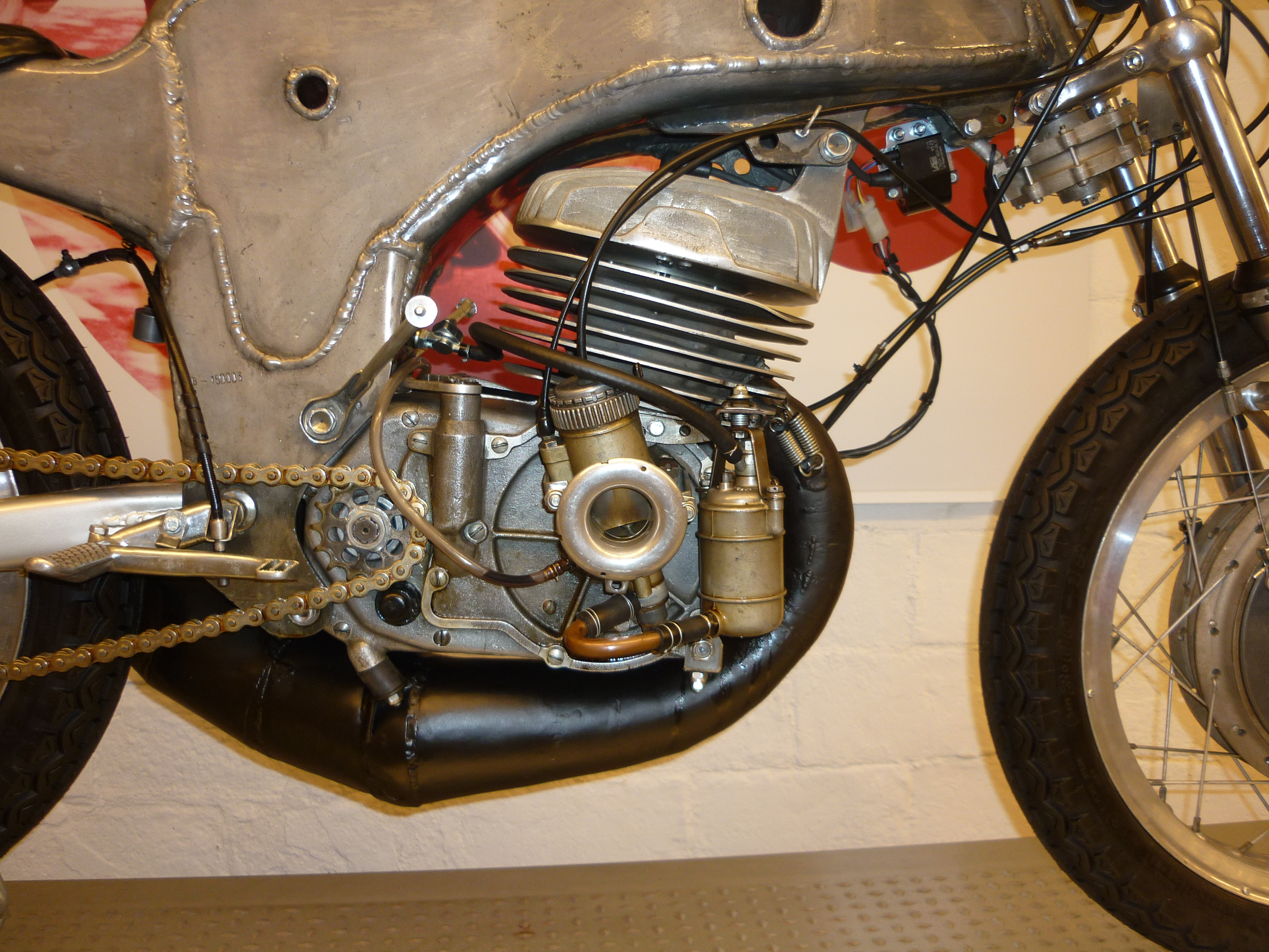 The engine of the OSSA Monocoque 250cc, 1968. Created by Eduard Giró and ridden by Santiago Herrero, this bike was regarded as the fastest single cylinder motorbike at the time and won several Grand Prix between 1968 and 1970. Herrero died when he crashed while riding it at 1970 Isle of Man TT.